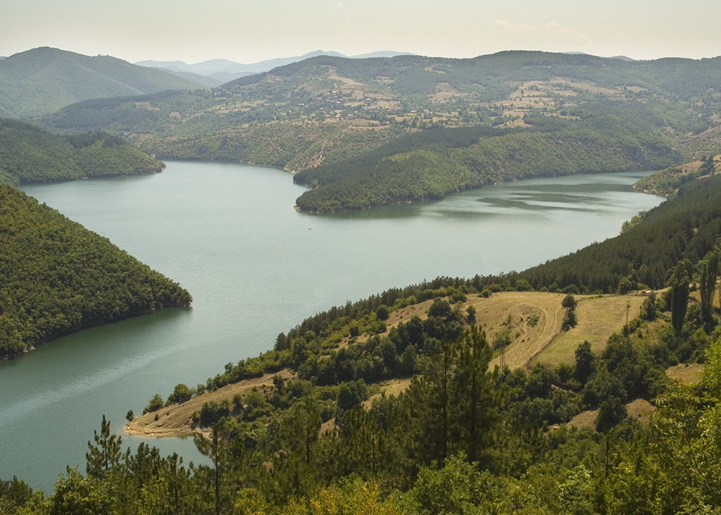 Dam "Kurdzhali", Bulgaria